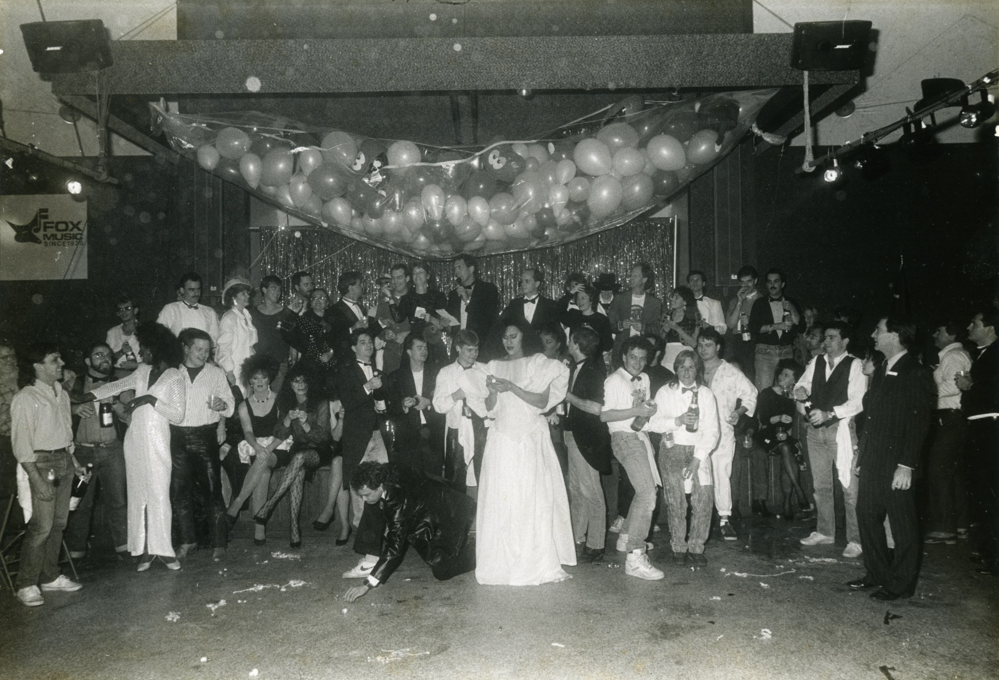 Black and white photograph of the interior of the mixed gay and straight bar the Garden & Gun club. A large crowd of people pose beneath netting holding up balloons.